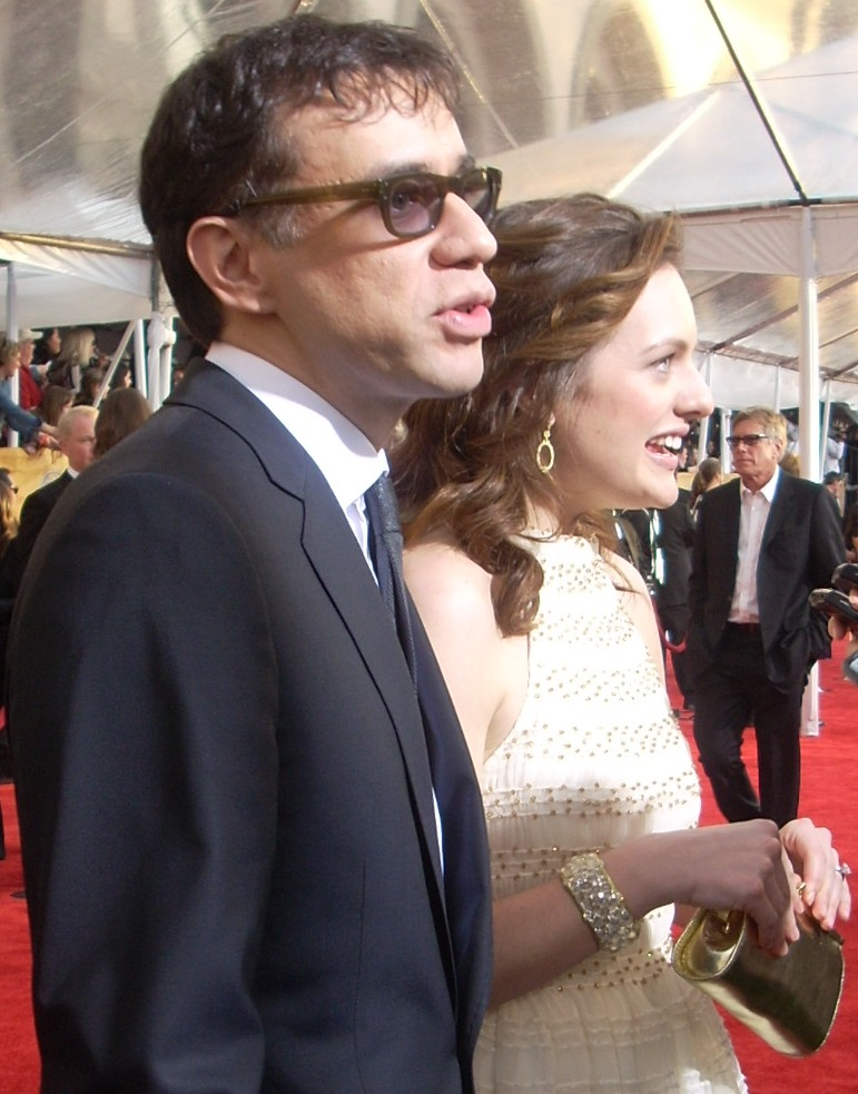 Comedian Fred Armisen and actress Elizabeth Moss, at the 15th Screen Actors Guild Awards